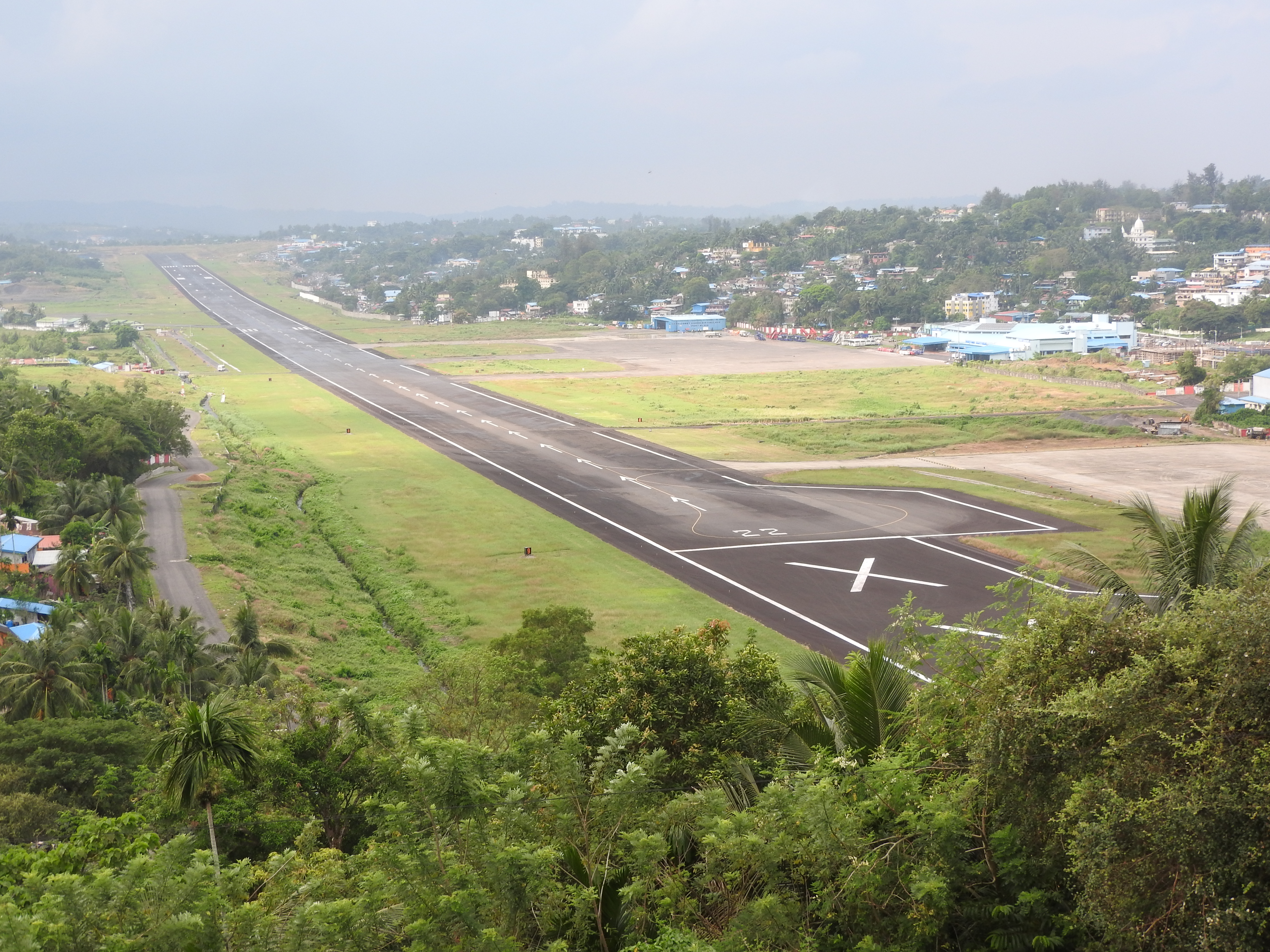 Photo taken from joggers park,Andaman.